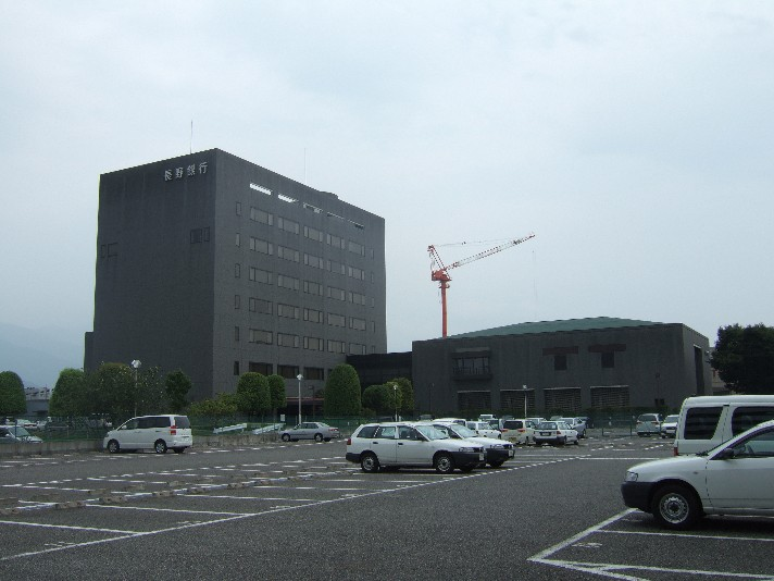 長野銀行 本店。長野県松本市 The head office of The Nagano Bank, Ltd. in Matsumoto, Nagano, Japan